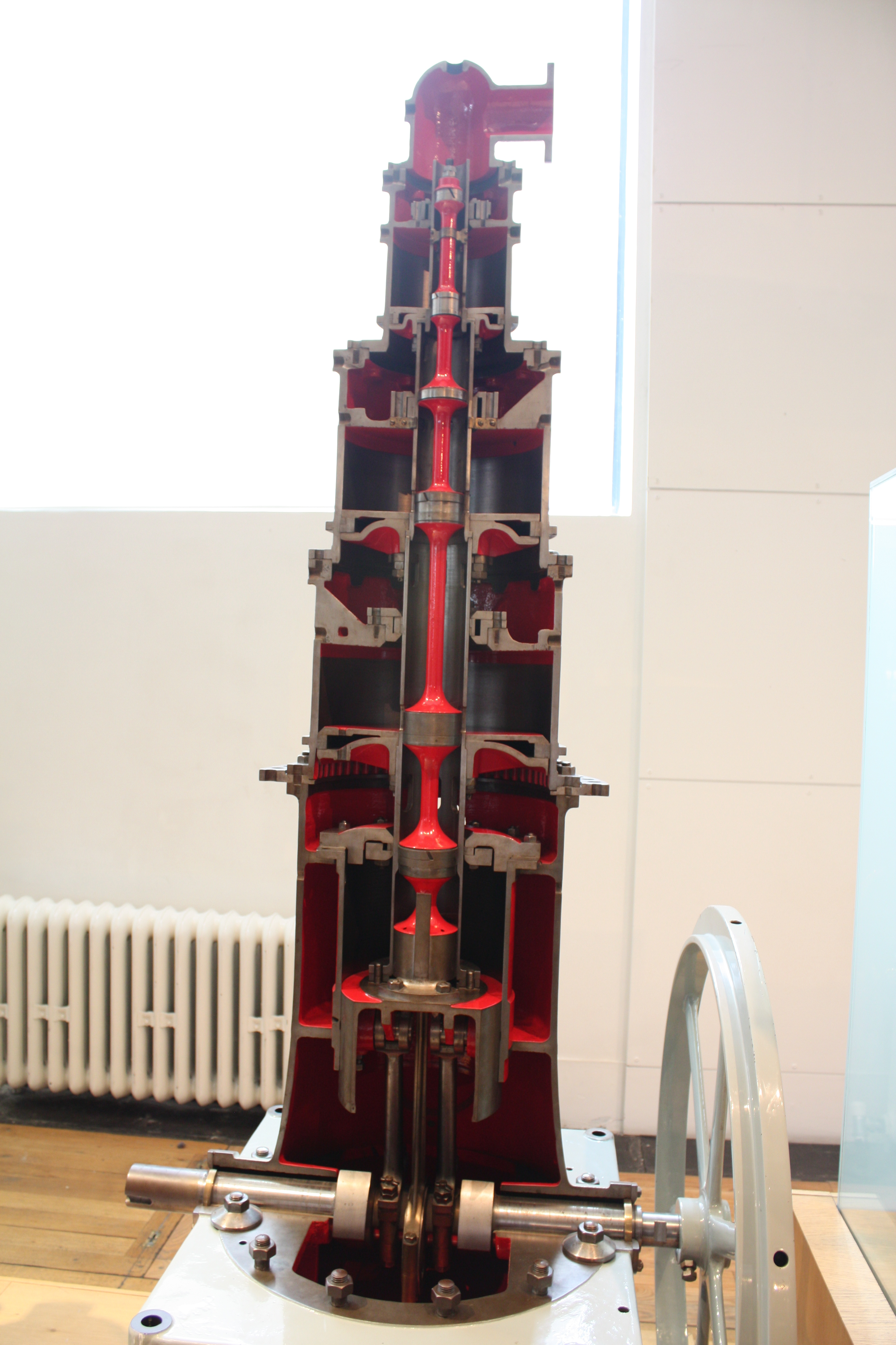 Willans Patent Central Valve Engine. An extraordinary triple expansion engine in which all the piston valves and all the pistons move together, with direct exhaust of steam from one to the next.